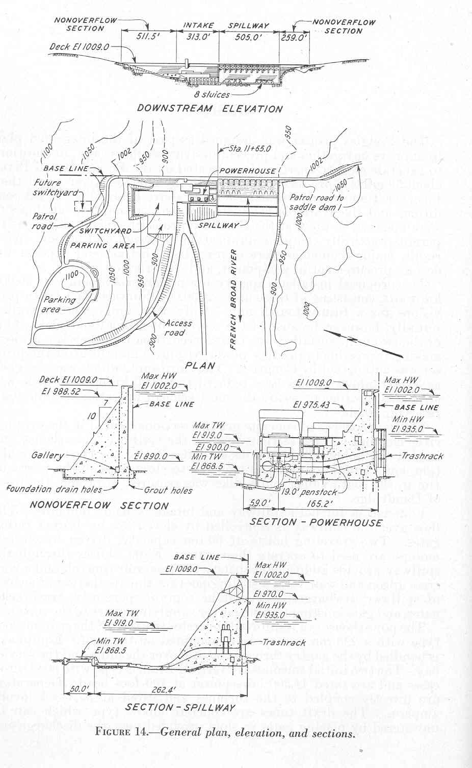 The original design plan for Douglas Dam, a Tennessee Valley Authority impoundment of the French Broad River in Sevier County, Tennessee, USA.